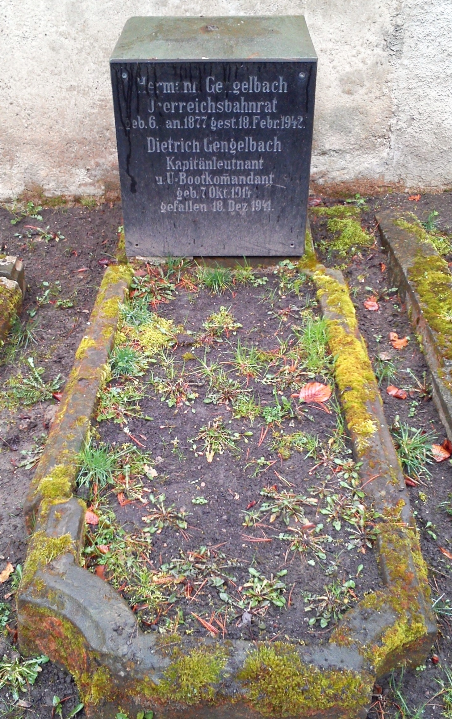 Gengelbach family gravestone at the Historischer Friedhof Weimar. Hermann Gengelbach (+ 1942) was an Oberreichsbahnrat (senior national railway official) and Dietrich Gengelbach (+ 1941) was a Kapitänleutnant und U-Bootkommandant (lieutenant and submarine commander).